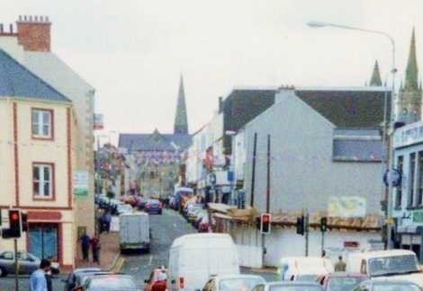 Lower Market Street, Omagh with a view of the bomb site and courthouse in the background